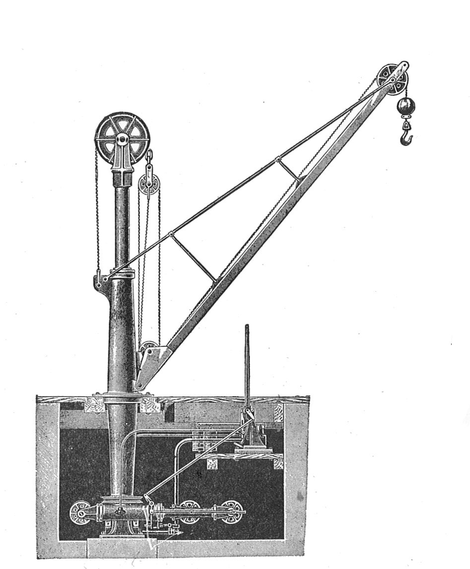 Hydraulic crane (Rankin Kennedy, Modern Engines, Vol VI).jpg